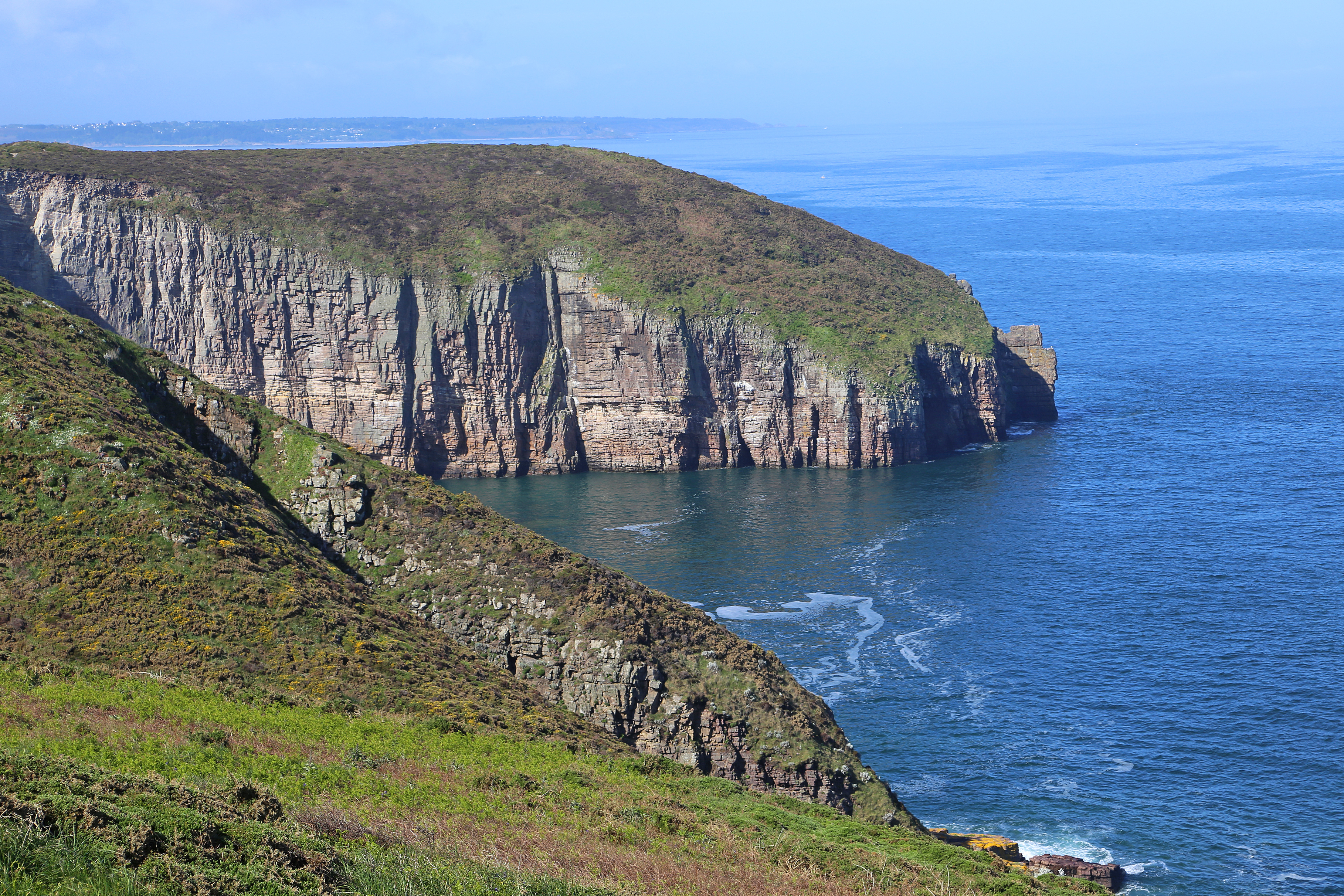 Cap Fréhel, a headland with about 70 meters high cliff on the Côte d'Émeraude, Brittany. The cap is a bird sanctuary.